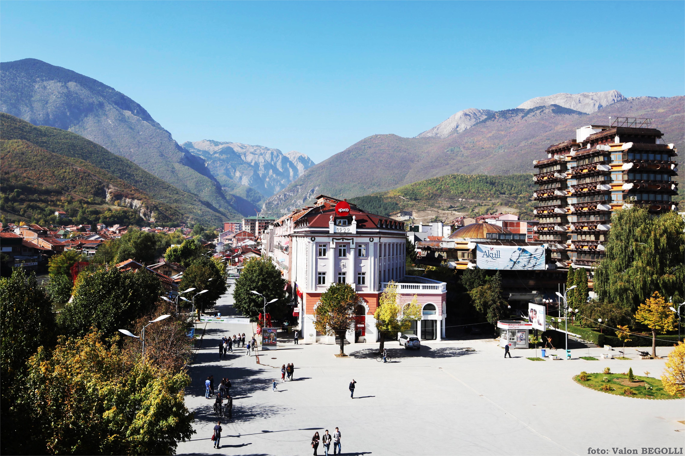 Peja town center